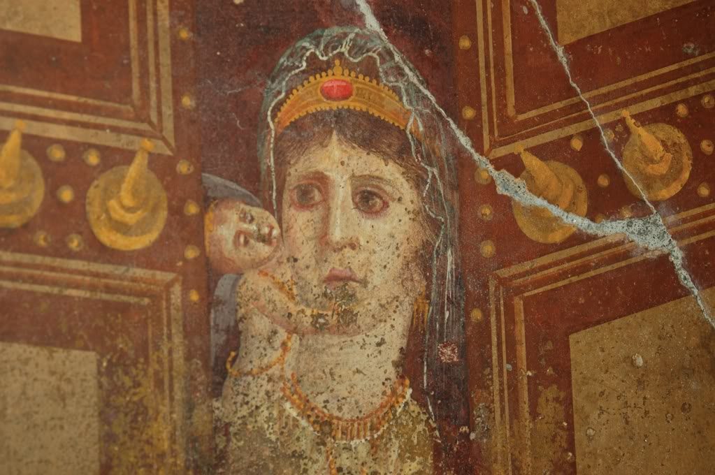 An ancient Roman wall painting in Room 71 of the House of Marcus Fabius Rufus at Pompeii, Italy, showing Venus with a cupid's arms wrapped around her. It is most likely a depiction of Cleopatra VII of Ptolemaic Egypt as Venus Genetrix, with her son Caesarion as a cupid. It was most likely painted in conjunction with the September 46 BC foundation of the Temple of Venus Genetrix in the Forum Iulium (i.e. Forum of Caesar) by Julius Caesar, where he erected a gilded statue depicting Queen Cleopatra (as described by Appian in his 2nd-century AD Bella Civilia). Further information on this painting and the identification as Cleopatra VII and Caesarion in it can be found on page 175 in the following source: * Roller, Duane W. (2010). Cleopatra: a biography. Oxford: Oxford University Press. ISBN 9780195365535. For further photographs and explanation, see "VII.16.22 Pompeii. Casa di Fabio Rufo or House of M Fabius Rufus."For further explanation, validation, sourcing, and other photographic illustrations of the painting, see the following source: * Walker, Susan. "Cleopatra in Pompei?" in Papers of the British School at Rome, 76 (2008), pp. 35-46 and 345-8. (Courtesy the Cambridge University Press online.)